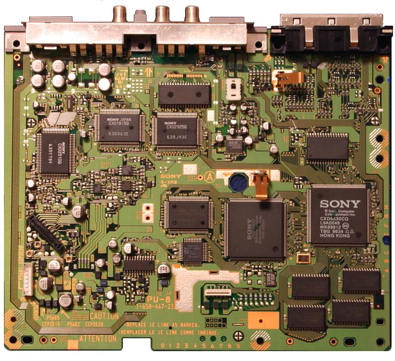 Sony PlayStation mainboard. Photo by: Rick Dikeman